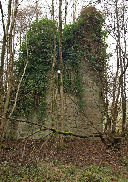 Woodhead House, Lennoxtown Woodhead House, the residence of the Kincaid Lennox family was considered by Mr. John Kincaid Lennox and his wife to be a little too 'lowly' for would be aristocrats, so they employed Glasgow architect David Hamilton to extend it for them. However, Mr. Hamilton thought the site and style of the existing mansion presented difficulties, and suggested that the plans to upgrade should be abandoned in favour of a new architecturally ornamental castle, with all refinement, style and comforts of the day. The new building was Lennox Castle.